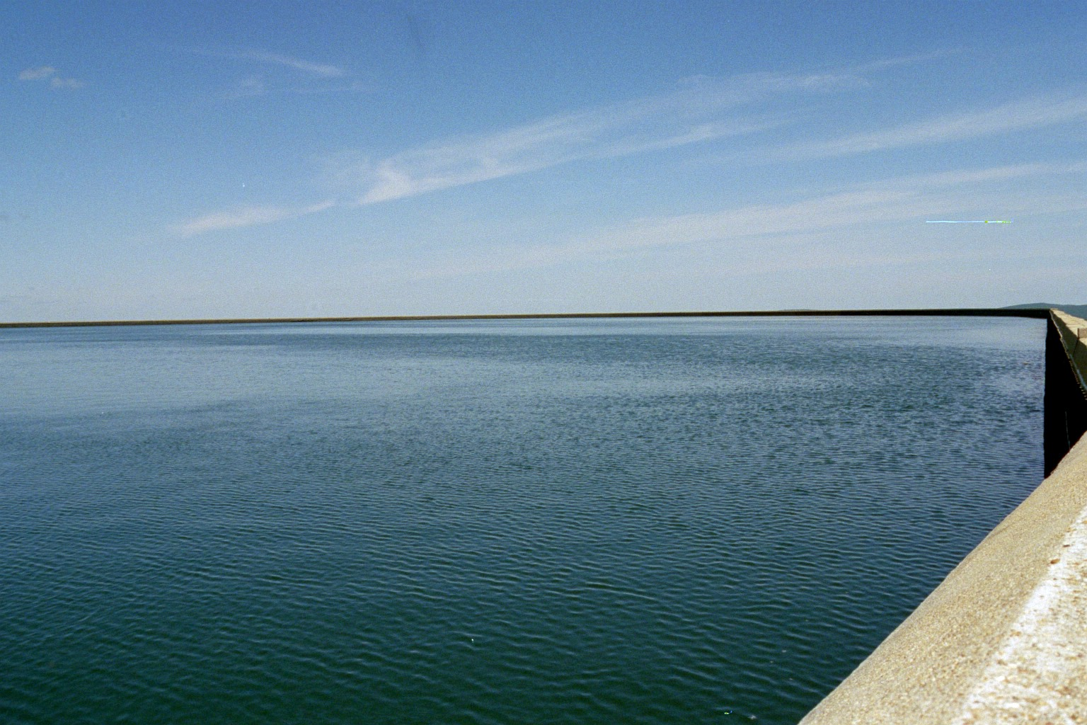 A view of the surface of the original upper reservoir of the Taum Sauk pumped storage plant when full.